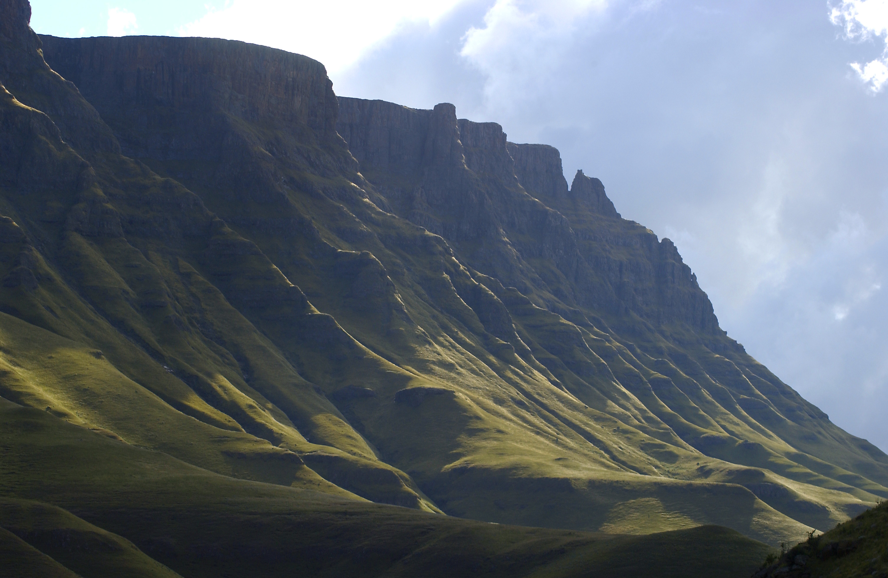 The mountains of the Sani Pass in the Drakensberg Mountains between South Africa and Lesotho --Mark peacock 07:24, 26 May 2007 (UTC)